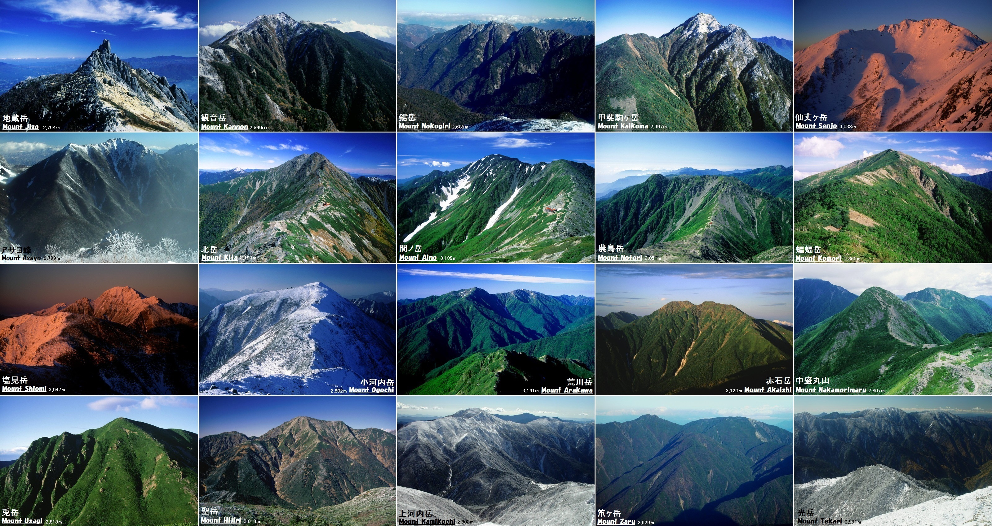 Montages of the Akaishi Moutains, Japan